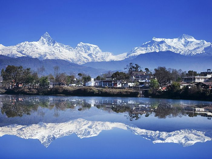 View of Fewa Lake